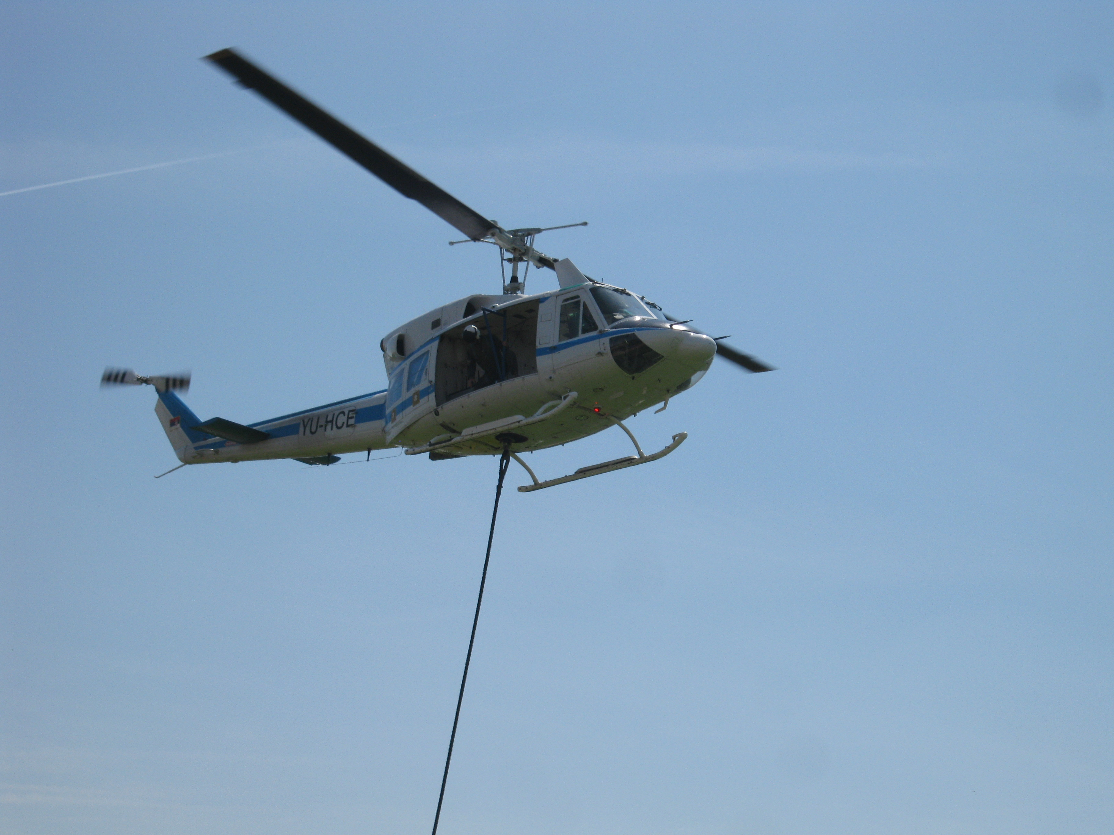 Bell 212 in service of Serbian Law Enforcement